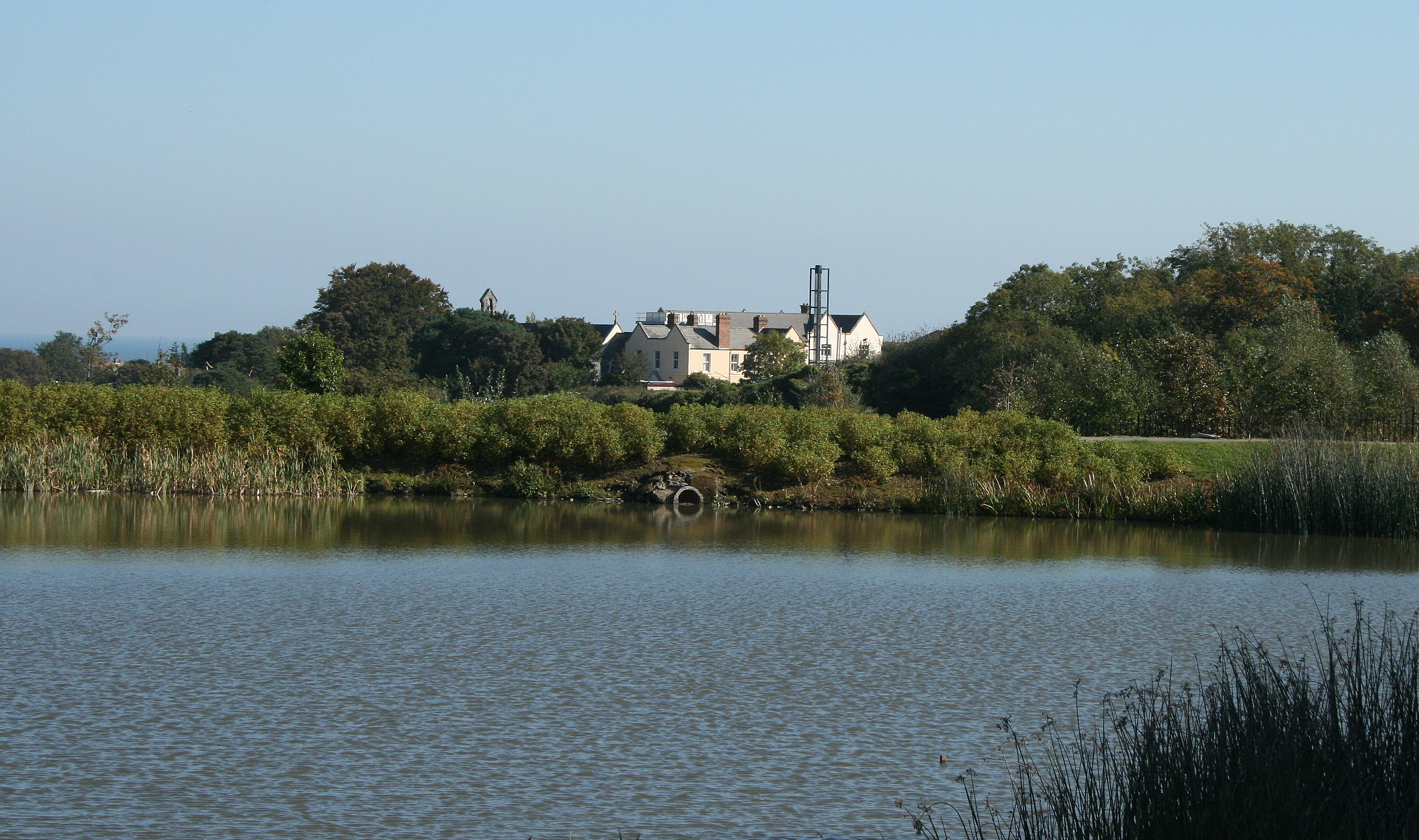 Loughlinstown Hospital viewed from Cherrywood